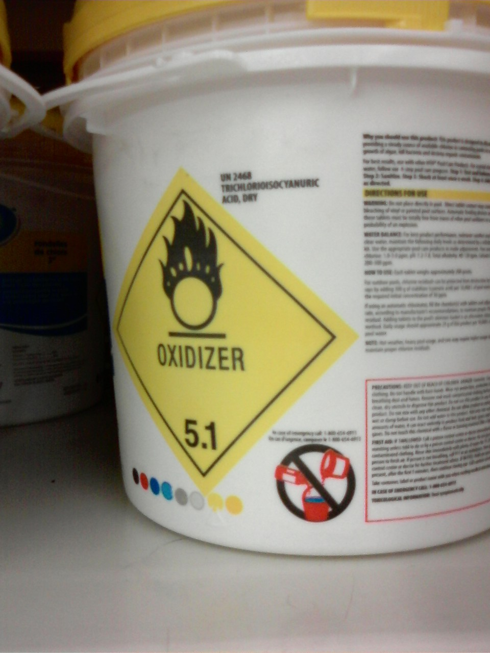 HAZMAT 5.1 oxidizer placard on a tub of swimming pool chemicals.UN 2468, Trichloroisocyanuric acid